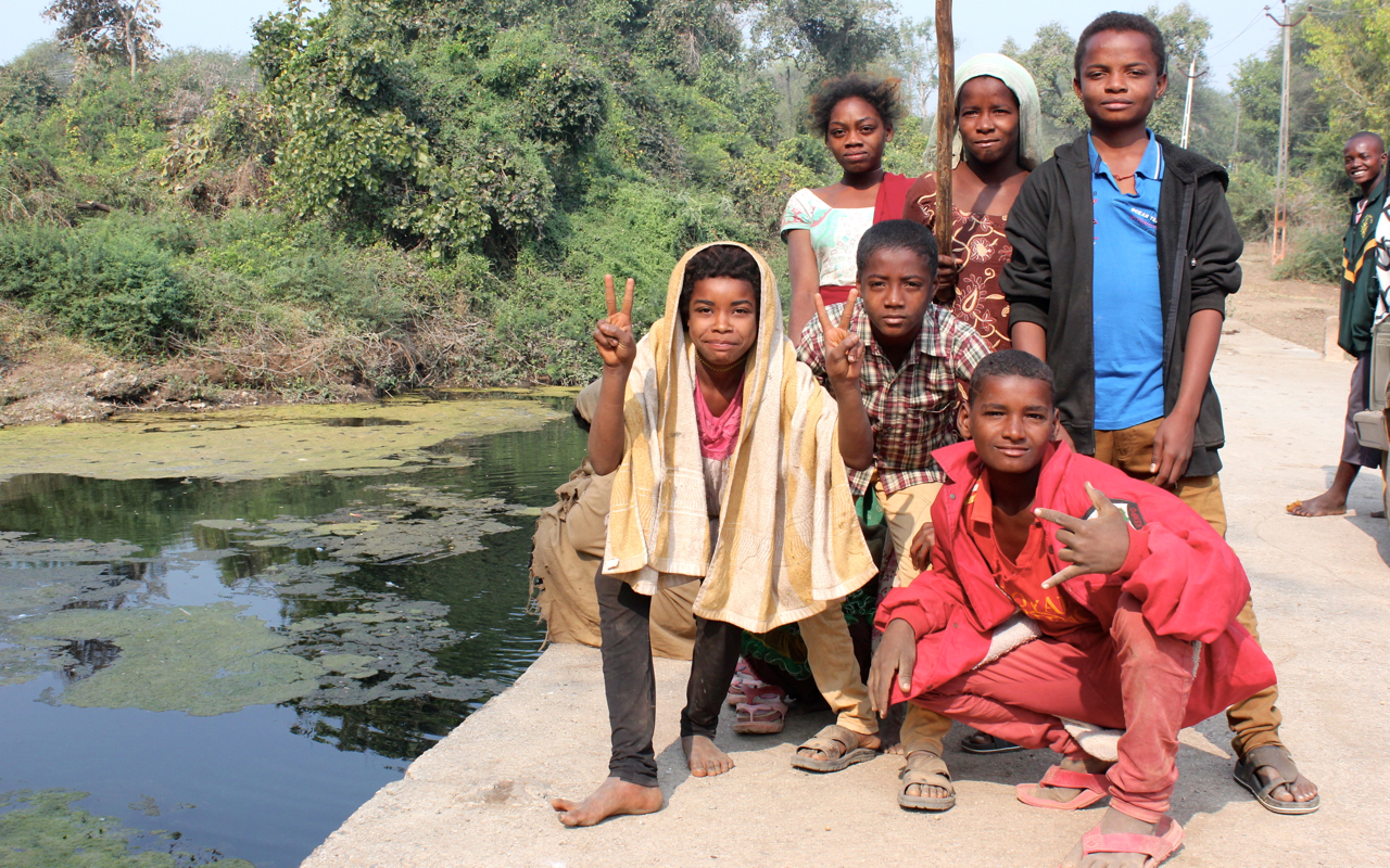 Siddi village in Sasan Gir. Indian people of African descent. Gujarat, New Year's Day, 2015. People of Gujarat, India